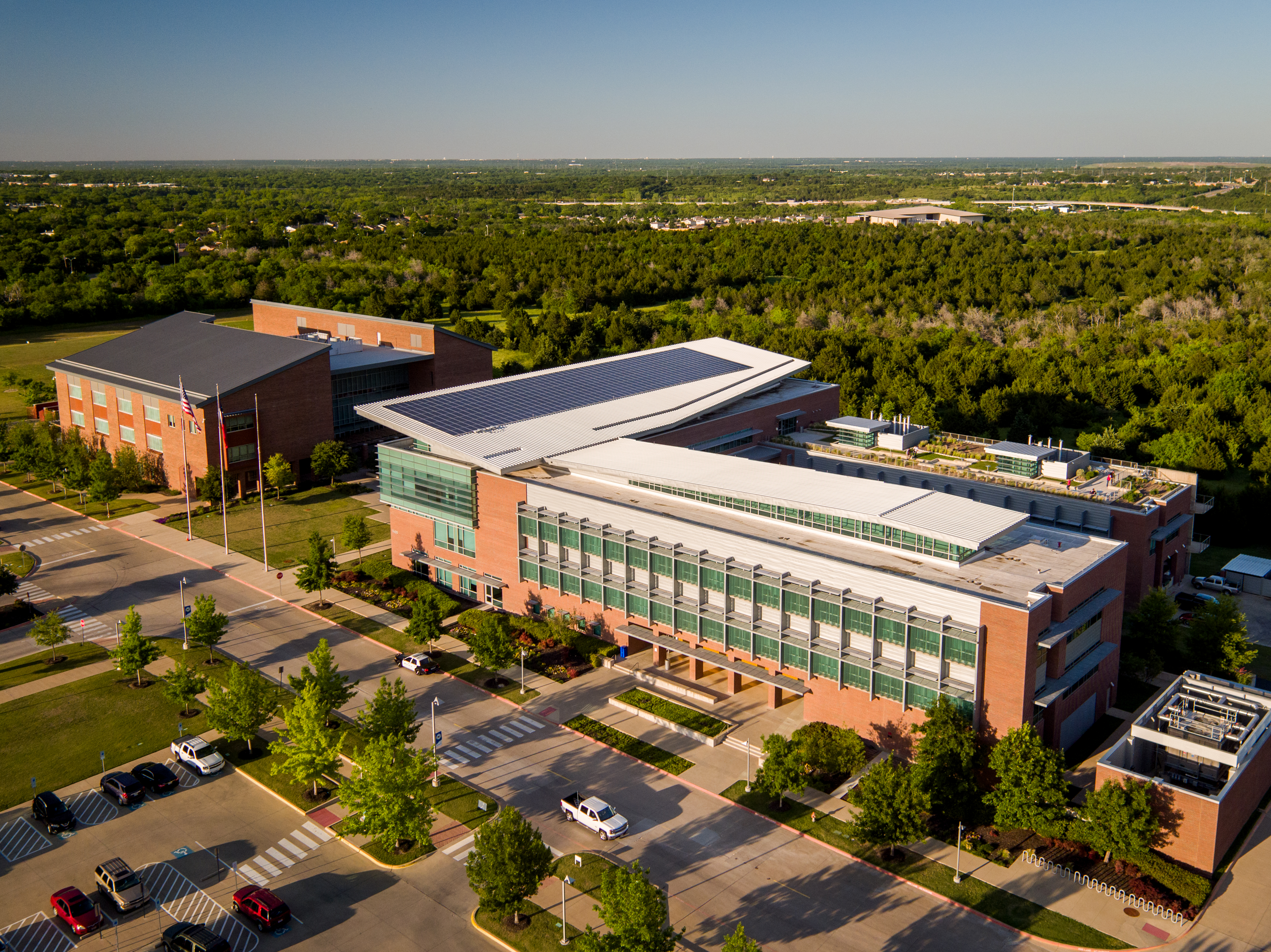 This aerial photo of the UNT Dallas campus looking northeast was taken in the spring of 2016. Founders Hall (foreground) was completed in 2010, the year UNT Dallas became a stand-alone campus from UNT in Denton. The campus broke ground for a residence hall in July of 2016 and will be located to the northeast of Building 1 (background). The campus will break ground on a 3rd academic building in February 2017 which will be located directly east of Building 1.